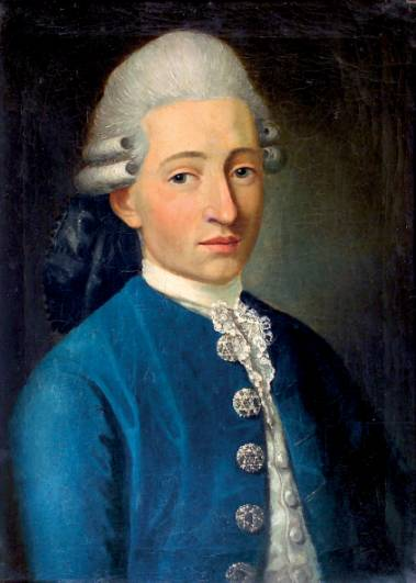 Claimed to show Wolfgang Amadeus Mozart, but not authentic.